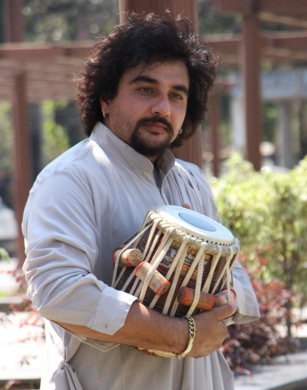 Avirbhav Verma Musician Photoshoot with holding Tabla